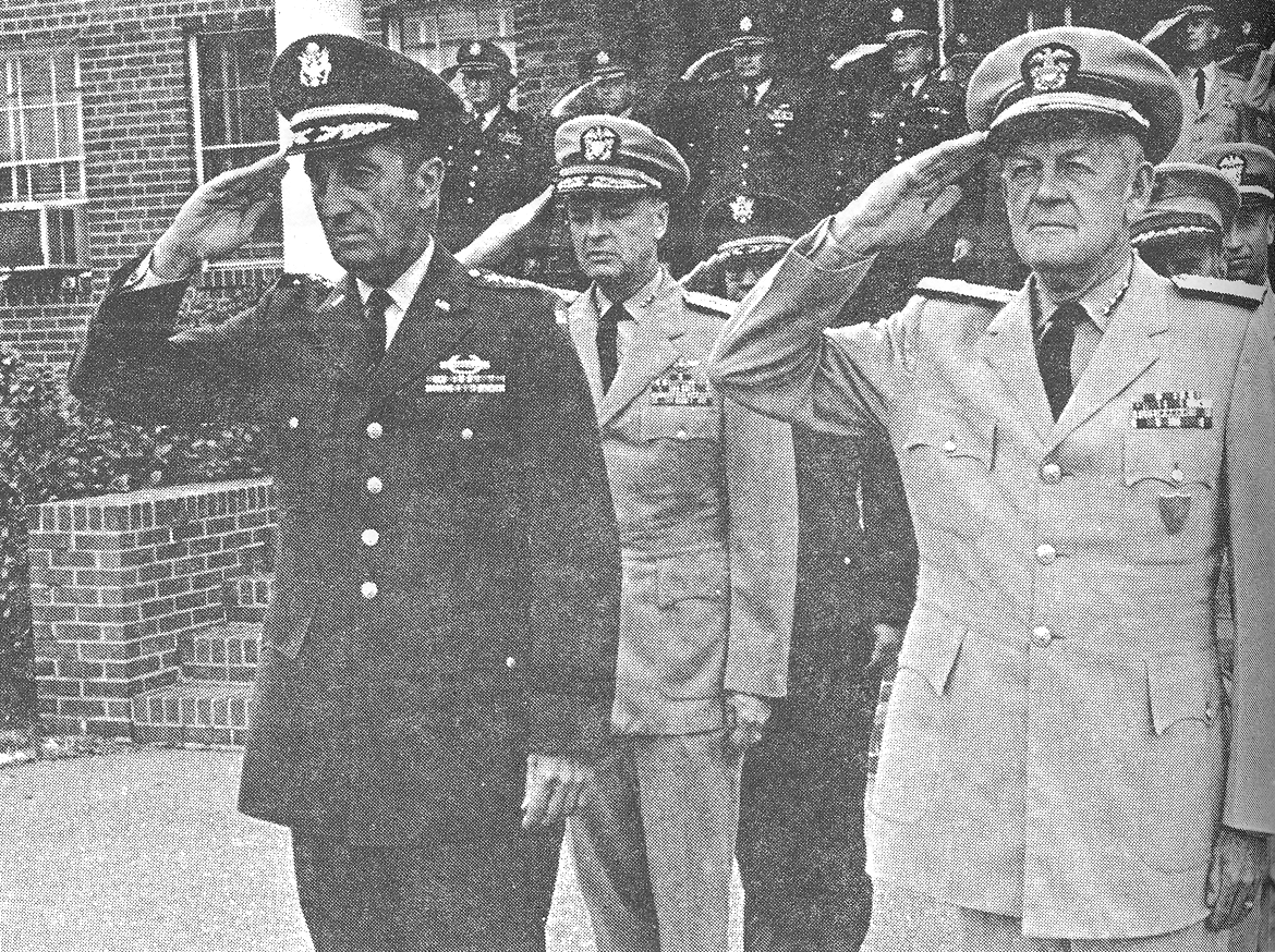 Gen. James K. Woolnough (left), Commanding General, Continental Army Command, receives welcoming honors at Allied Command Headquarters, Norfolk, Va. Gen. Woolnough was greeted by Adm. Ephraim P. Holmes (right), head of the unified Atlantic Command and the Navy's Atlantic Fleet. Department of Defense photo, scanned from Commander's Digest, July 19, 1967: p. 4.